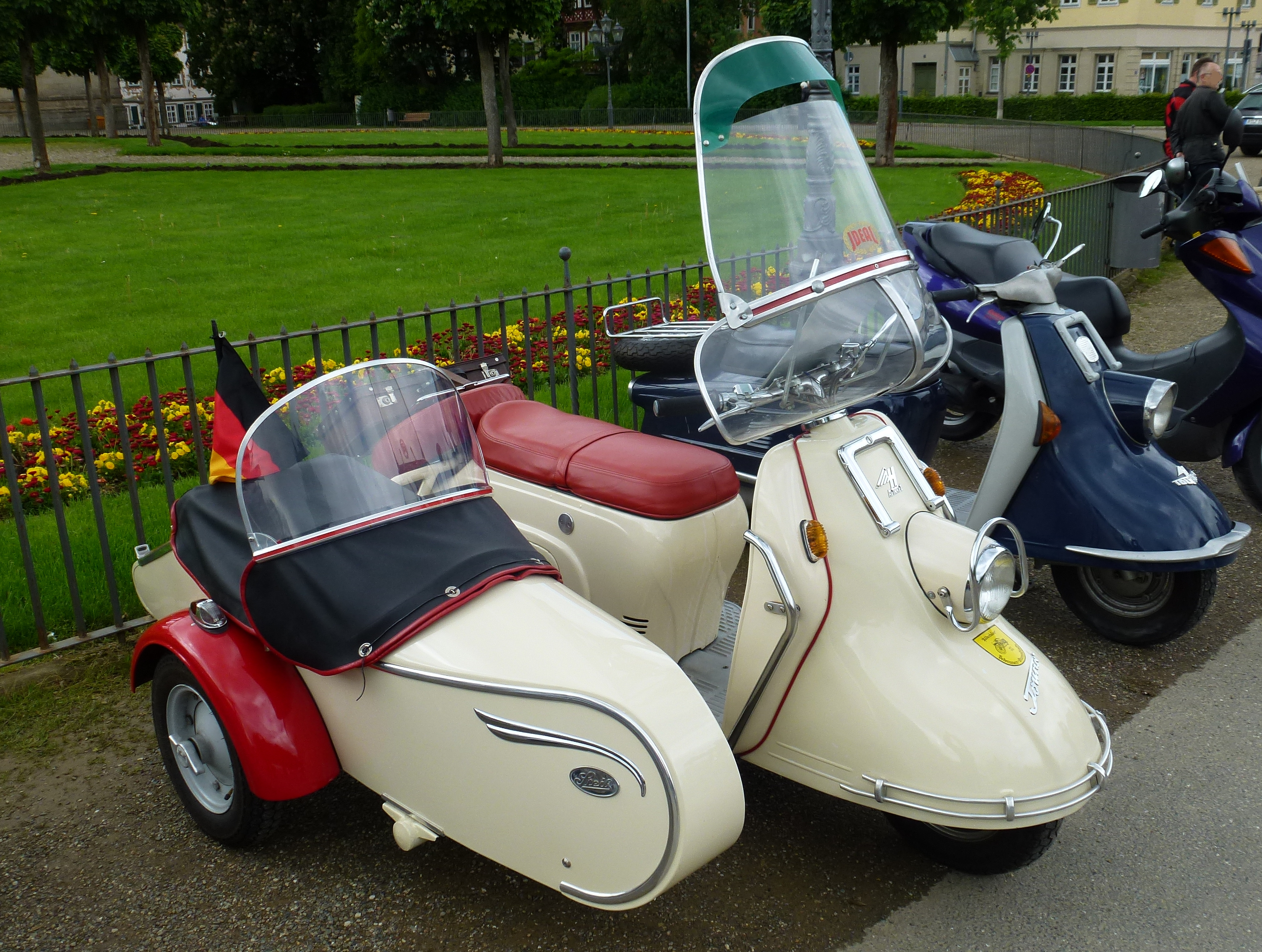 Heinkel Tourist scooter with sidecar type Roller 1 from the german company Steib in Nuremberg, which no longer exists since 1957.